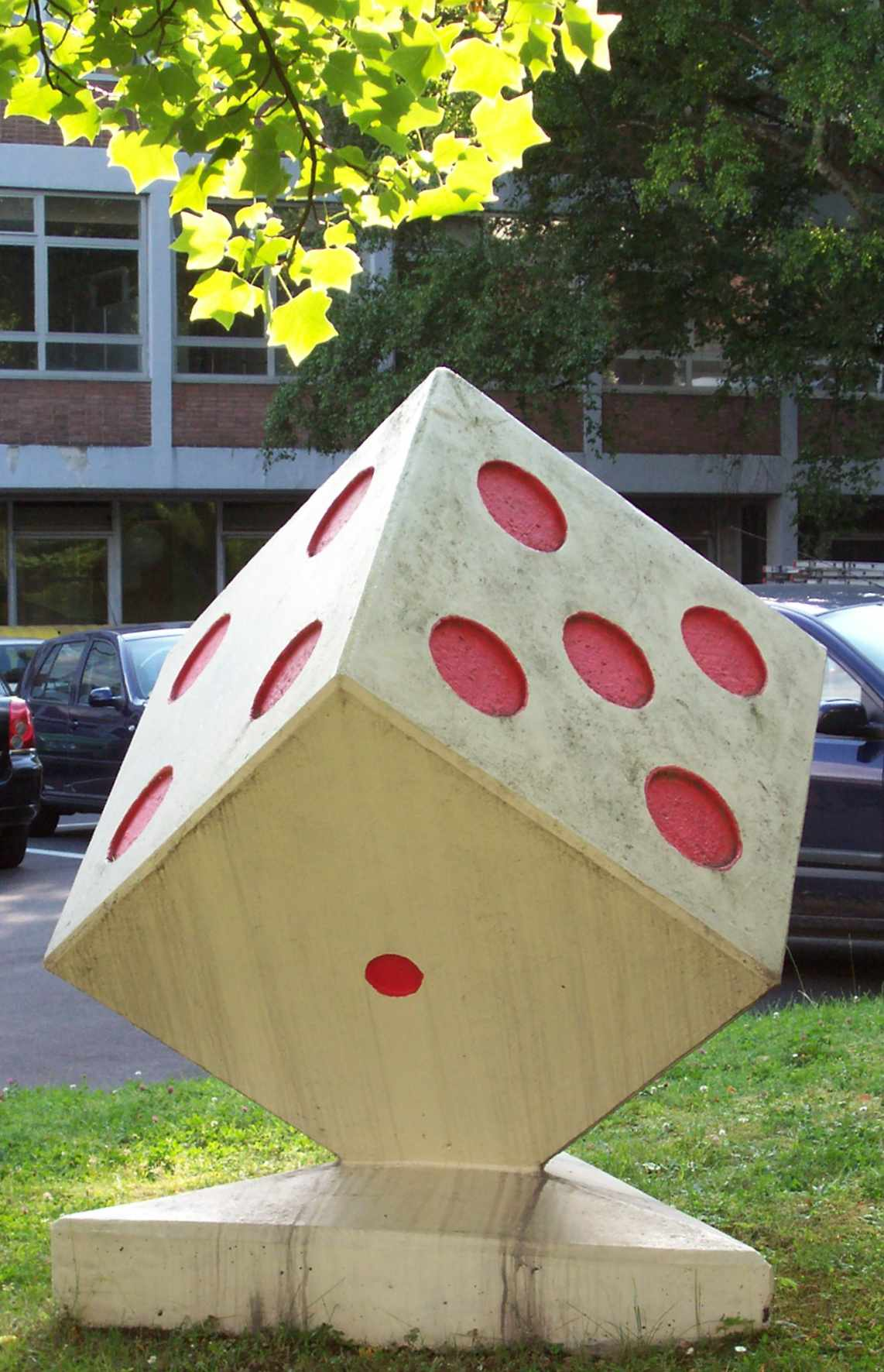 NCG Cube